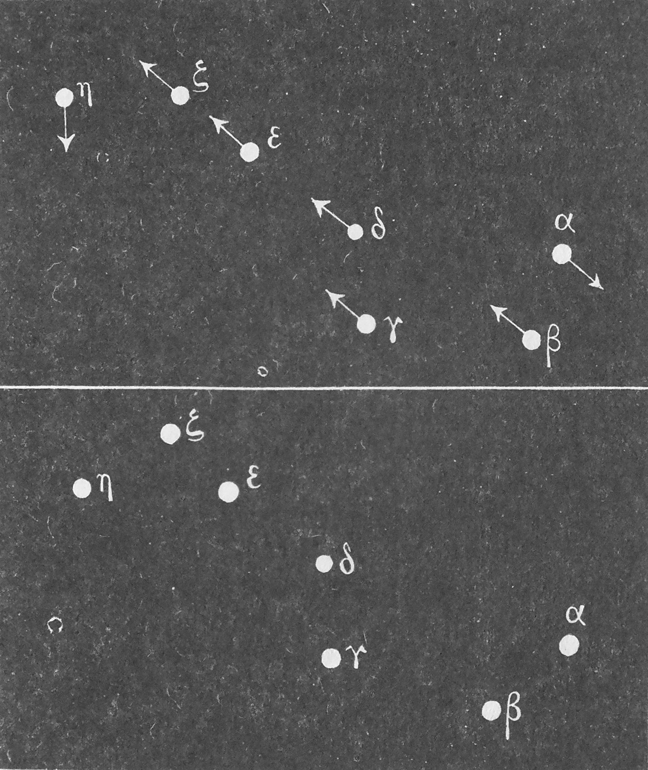 Ursa Major, present situation and situation in 36.000 years, according to Otto's Encyclopedia (Ottův slovník naučný, 1897)